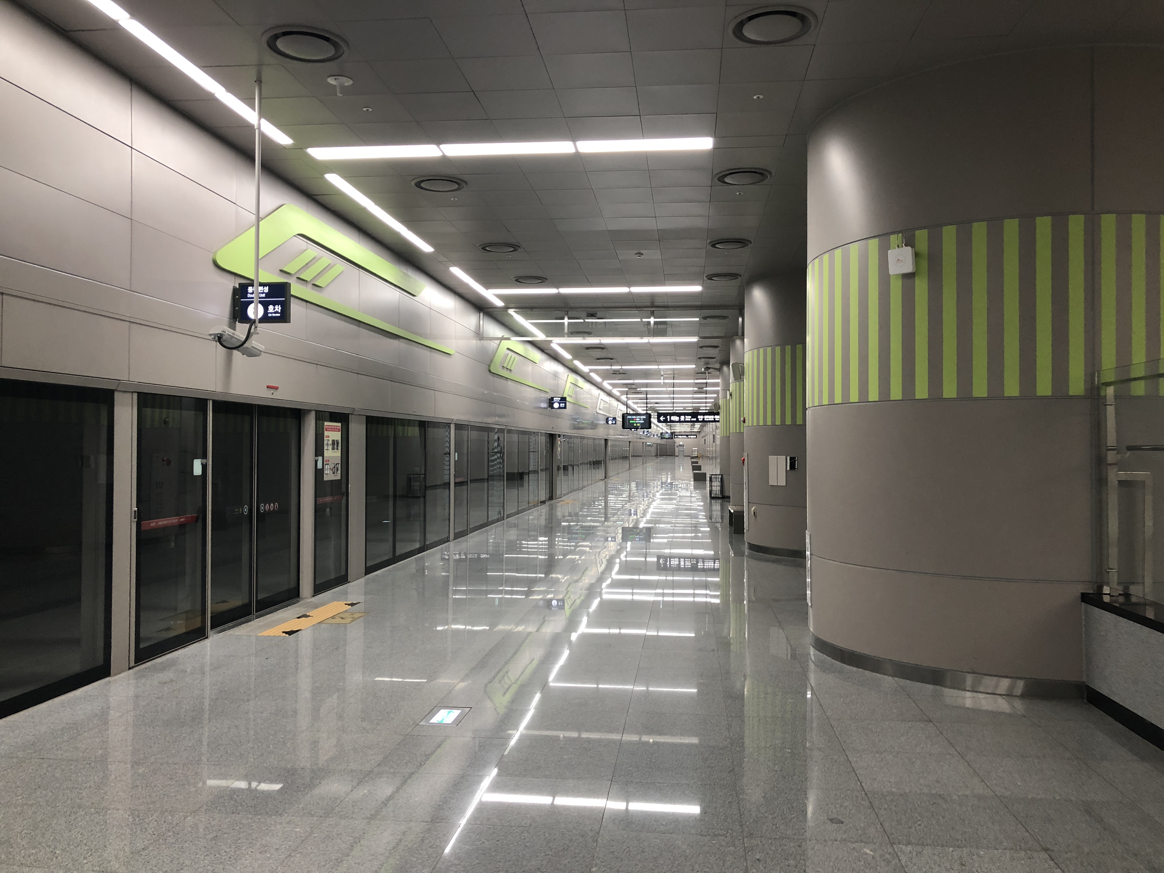 Dongtan Station, platform to Busan/Mokpo